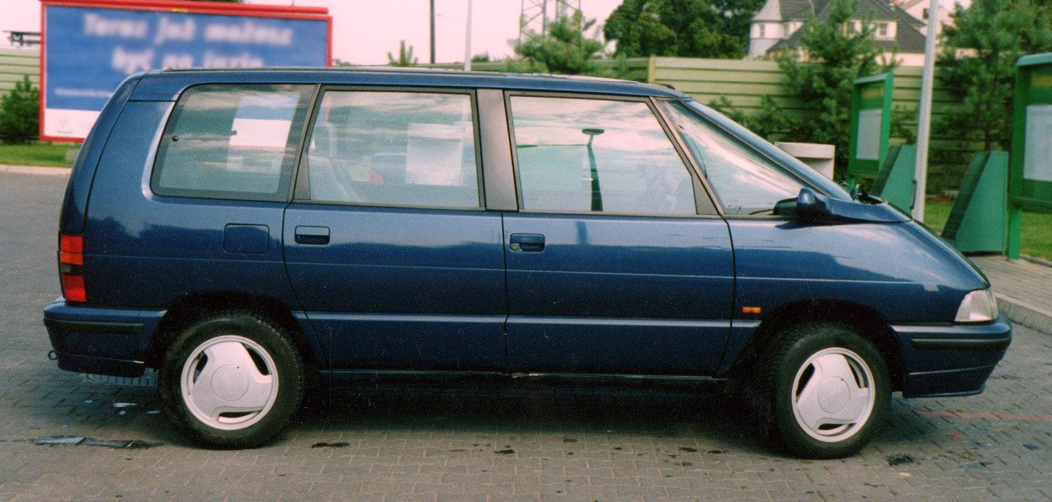 Renault Espace 2 V6 RT, 1991, 2.8